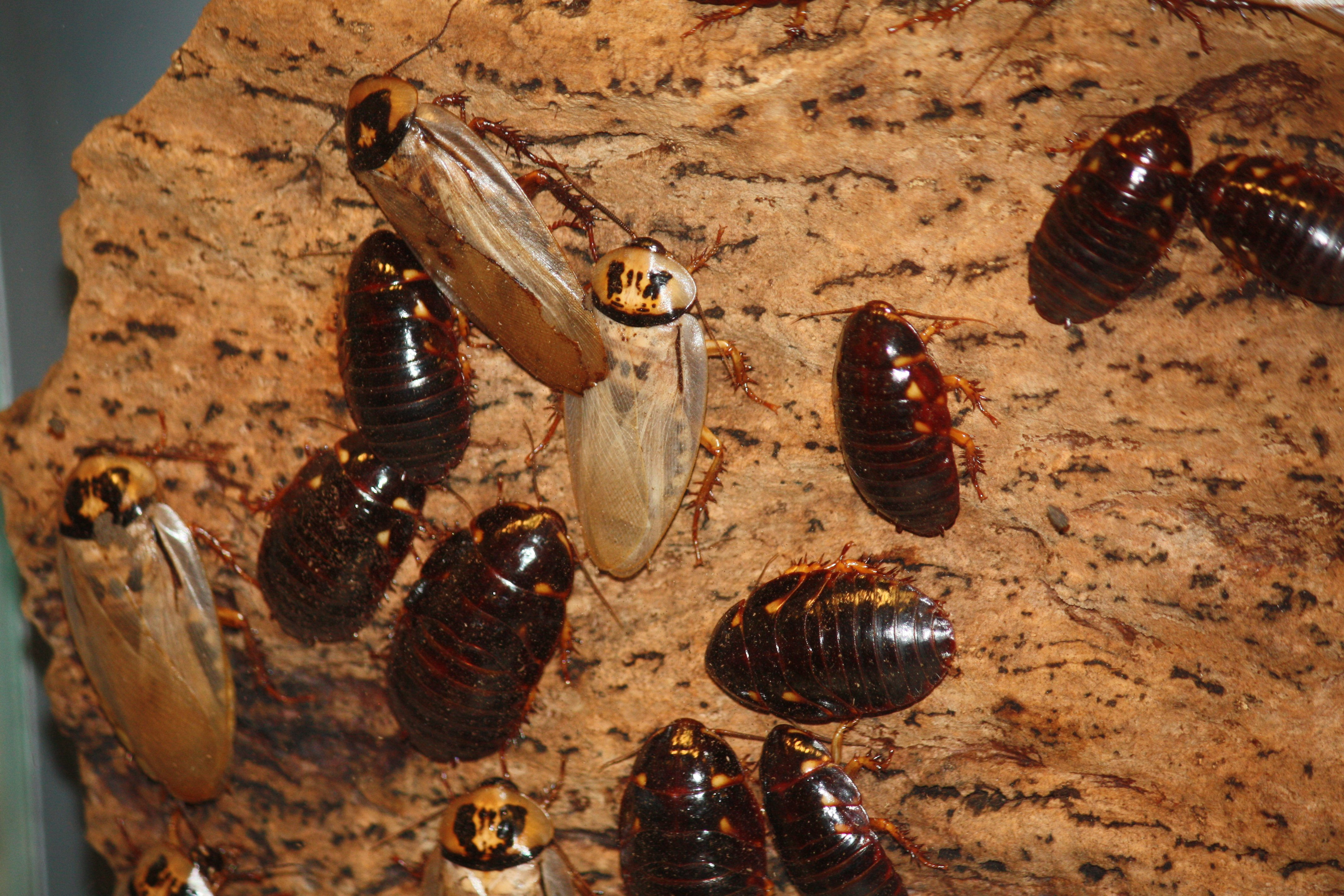 Bat Cave Cockroach Eublaberus distanti at Cincinnati Zoo